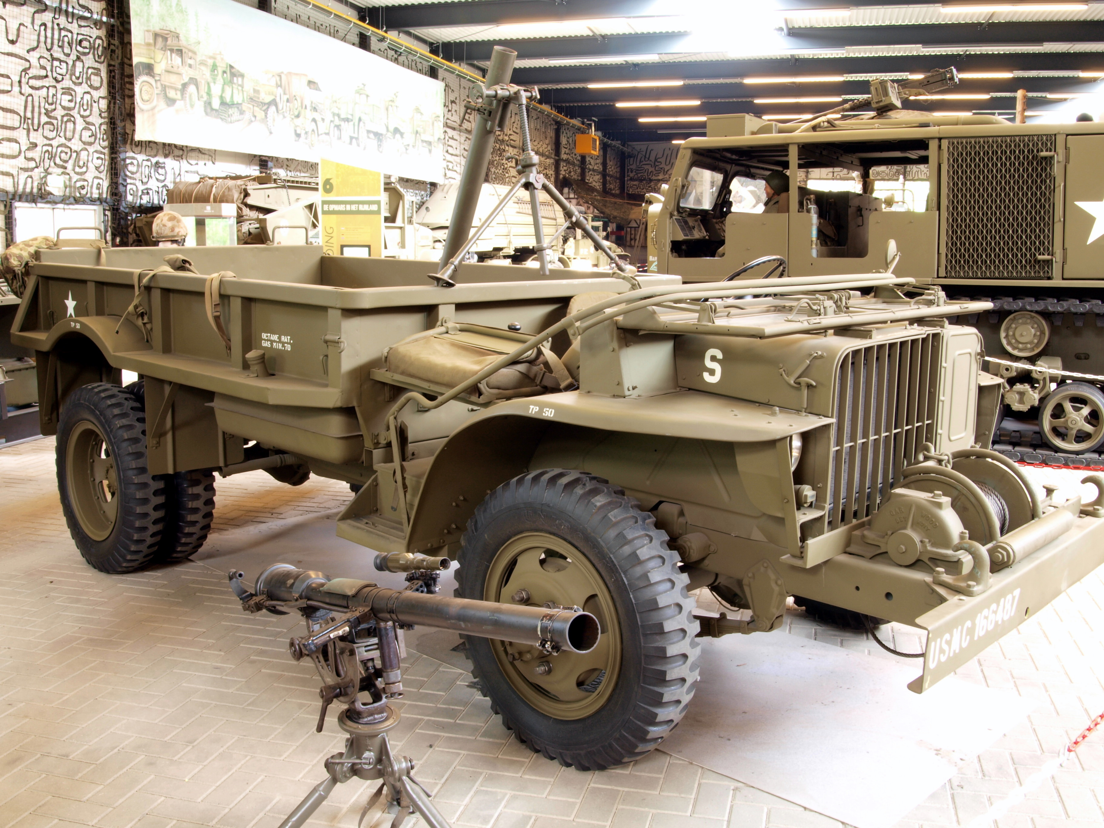 Photographed at the Marshallmuseum - Liberty Park - Oorlogsmuseum Overloon, The Netherlands. OLYMPUS DIGITAL CAMERA